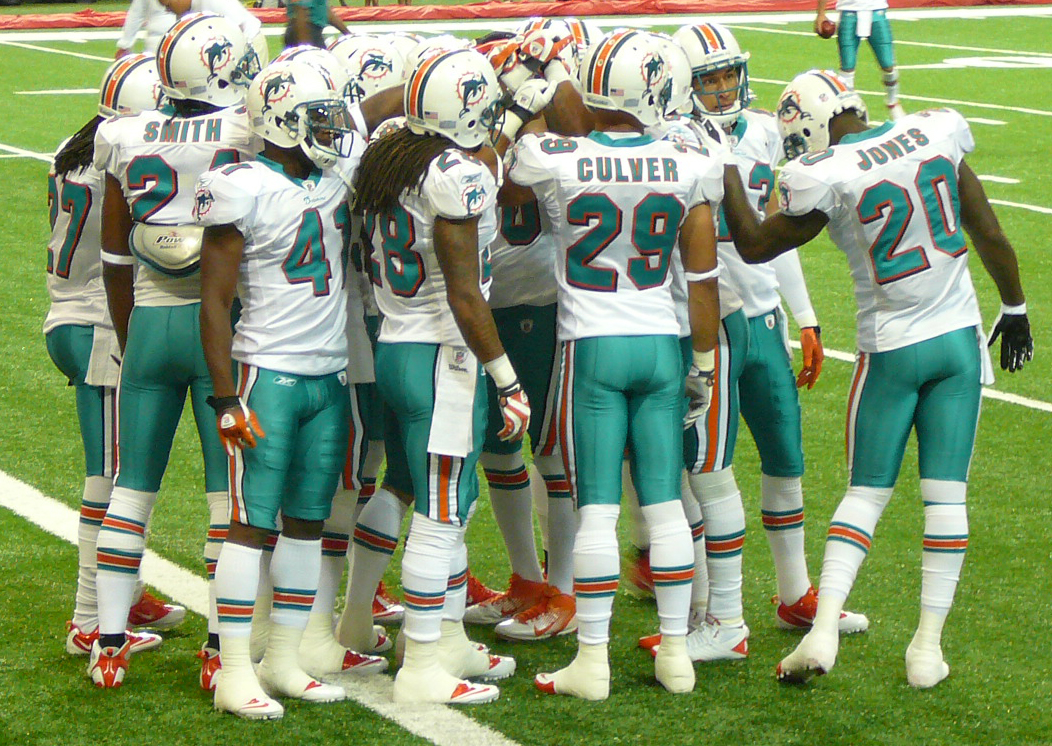 If used somewhere other than Wikipedia, Nelson, by name.